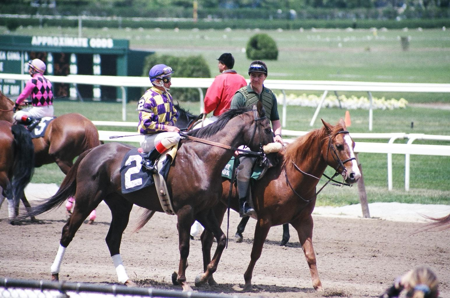 Horses march in the pre-race post parade at Belmont. Photo by Dave Mock